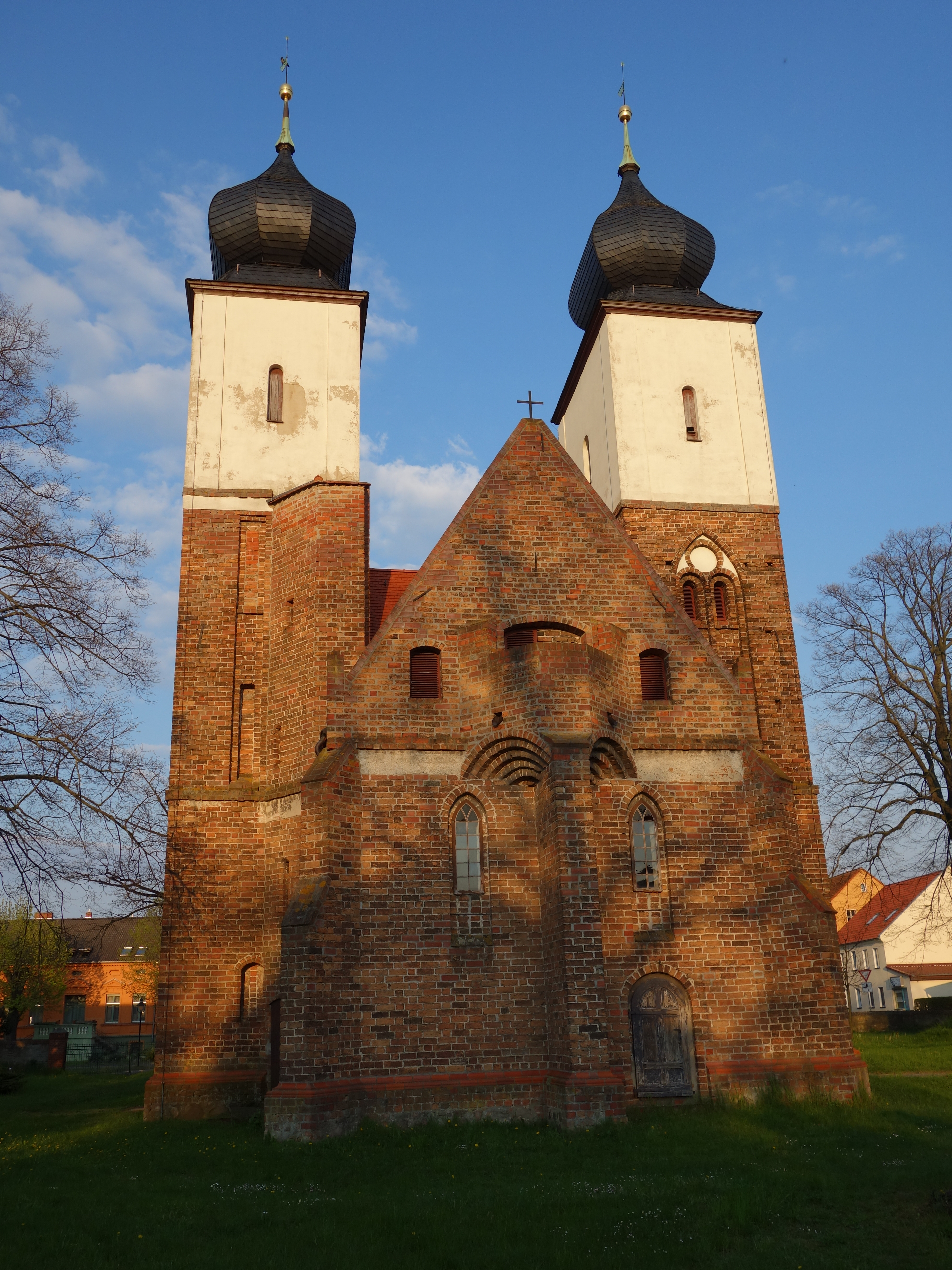 Western view with exterior pulpit of pilgrimage church St.Mary in Tremmen, Ketzin municipality, Havelland district, Brandenburg state, Germany